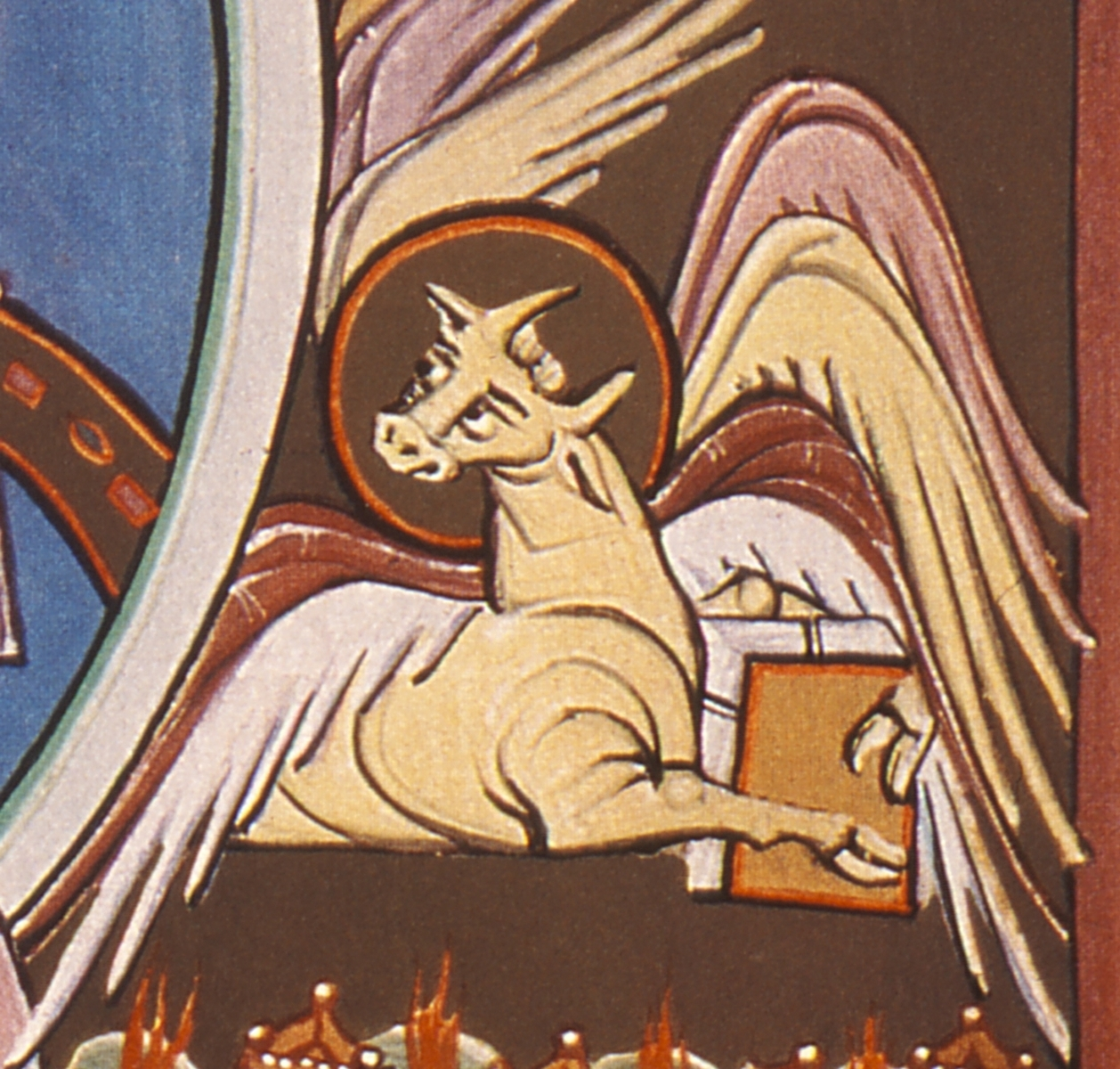 The Ox